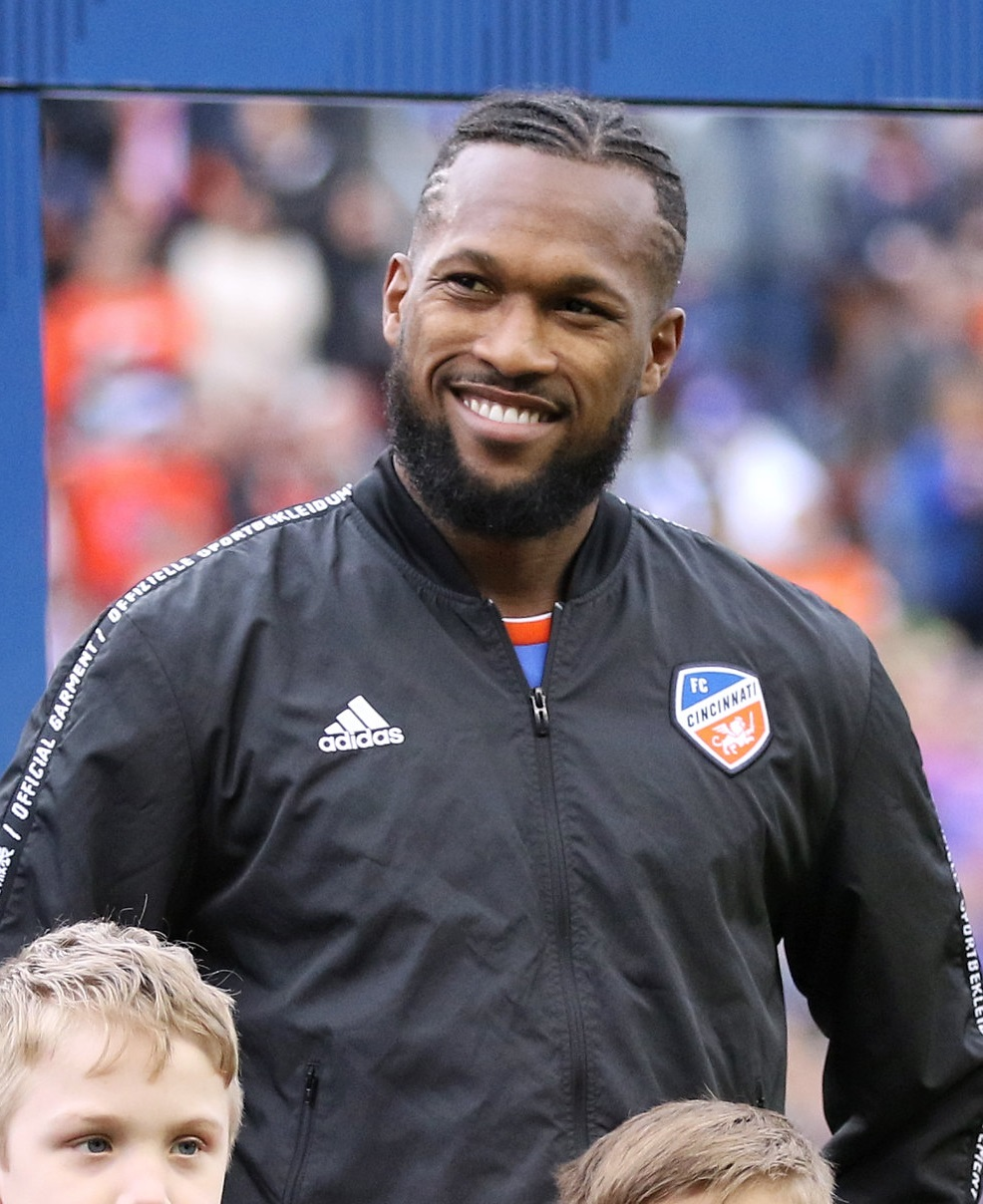 Kendall Waston of FC Cincinnati before their match against the Portland Timbers on March 17, 2019.